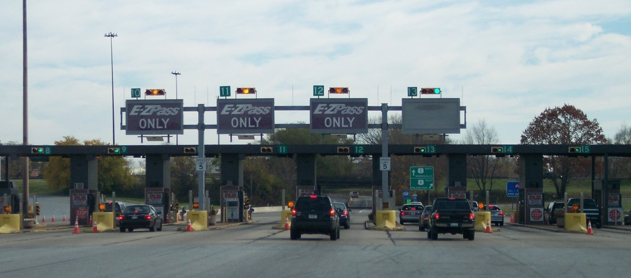 Pennsylvania Turnpike ramp to US 1 in Bensalem Township